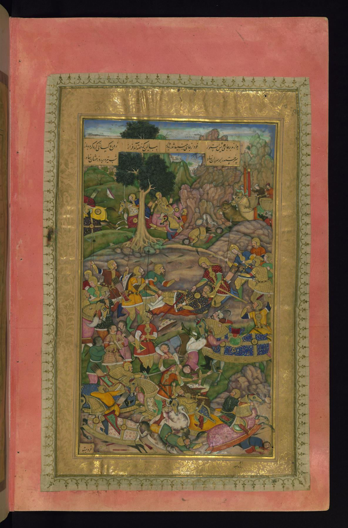 This folio from Walters manuscript W.613 depicts the death of Darius. This illustration is by Dharm Das.